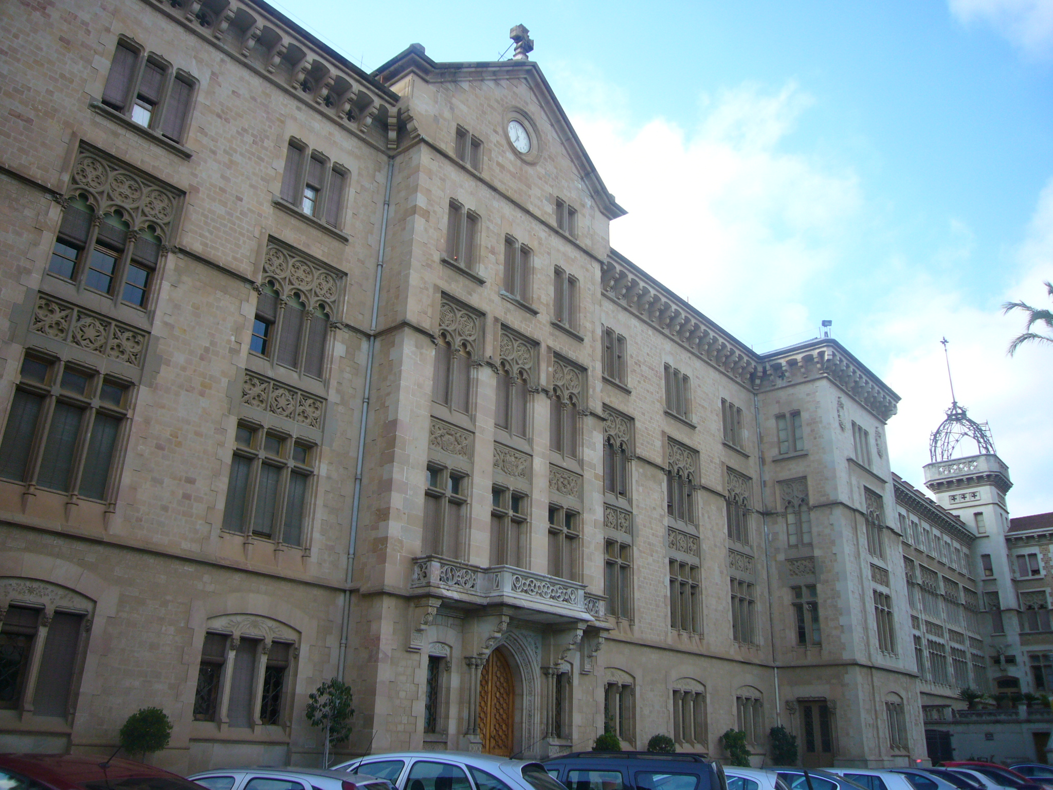 school "La Salle Bonanova" located in Bonanova, Barcelona